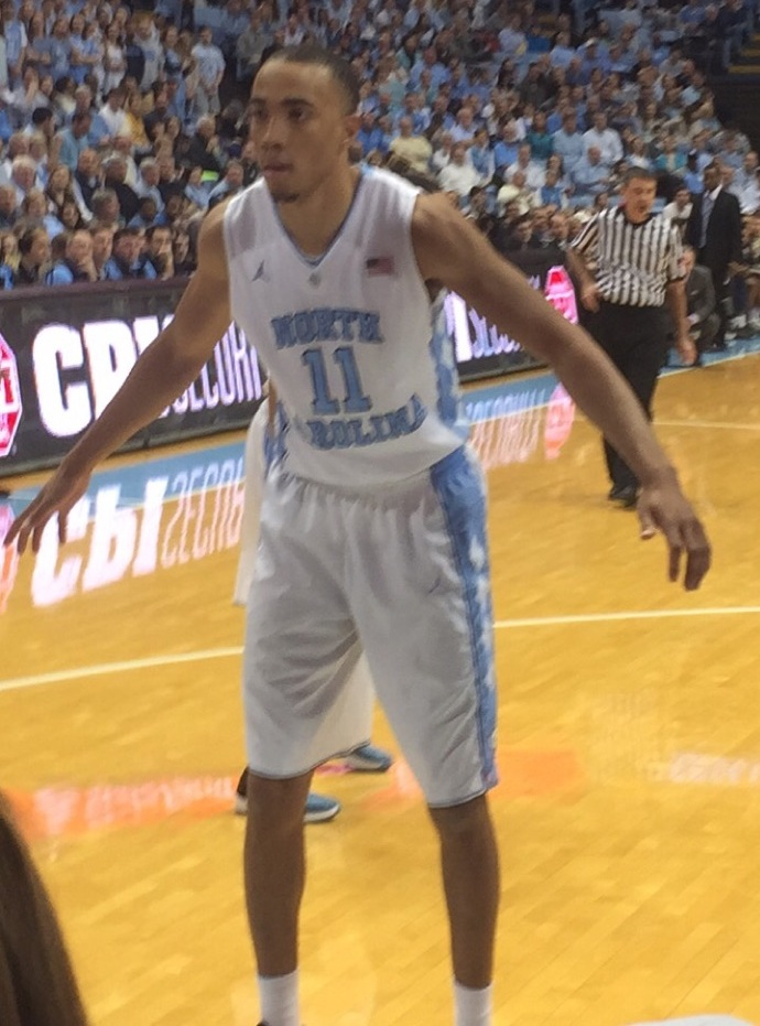 Brice Johnson defending on an endline throw-in against the Pittsburgh Panthers men's basketball team during a home game at the Dean Smith Center.